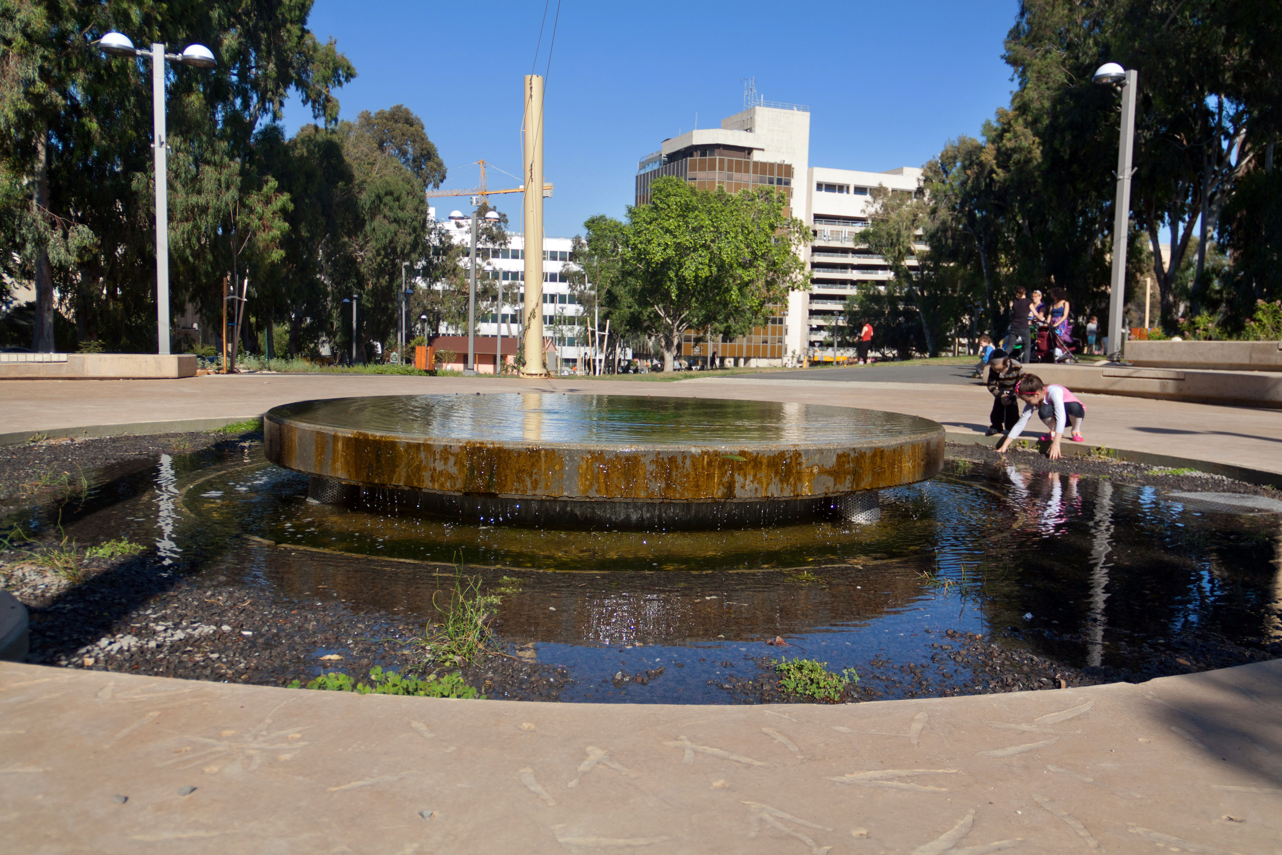 Kiryat Seffer Garden